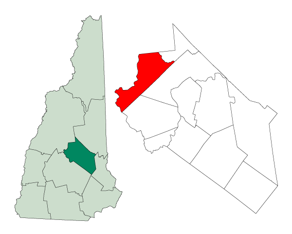 Map of a municipality in Belknap County, New Hampshire